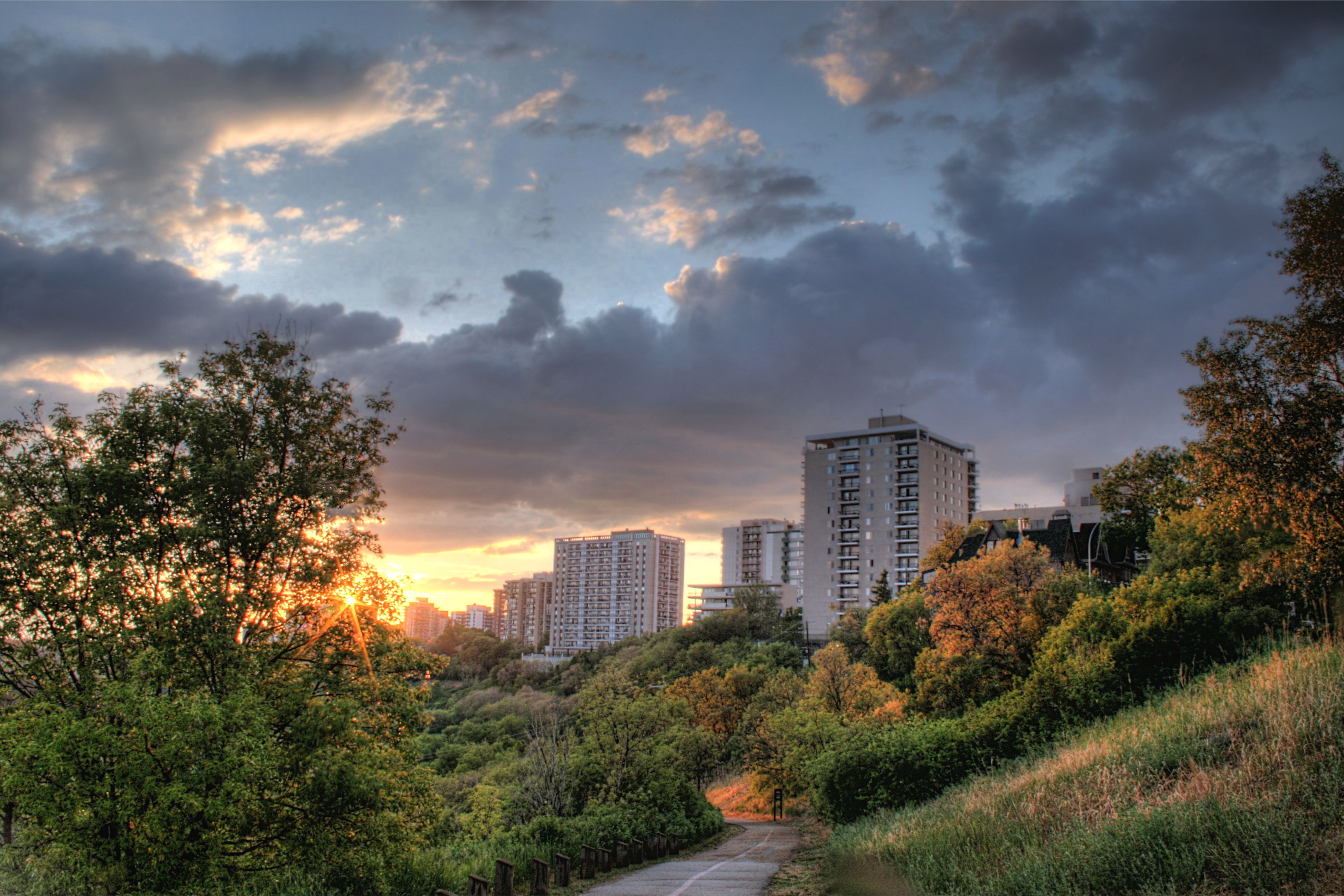 The North Saskatchewan River Valley in Edmonton, Alberta, Canada.